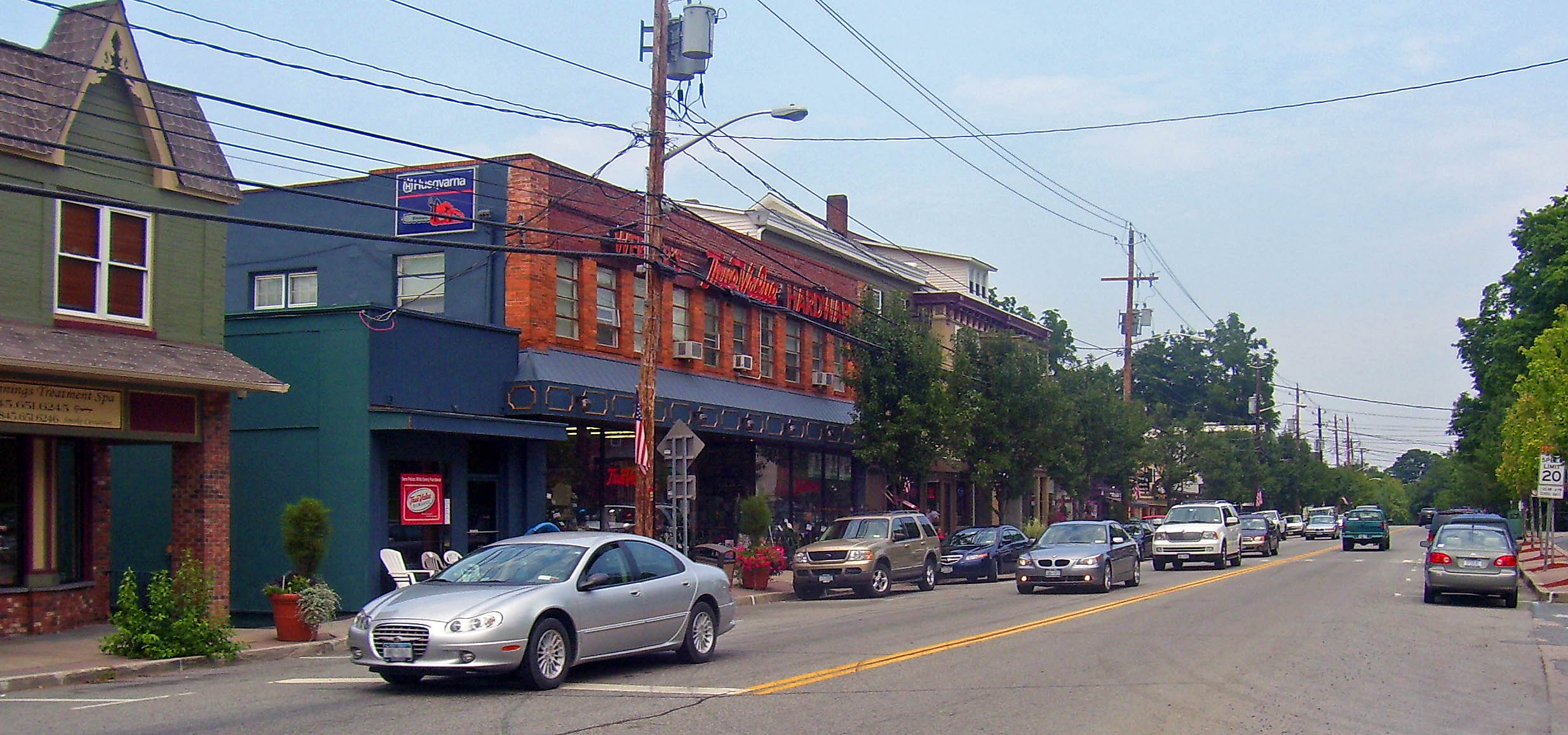 Downtown section of Florida, NY, USA, looking along NY 17A and NY 94